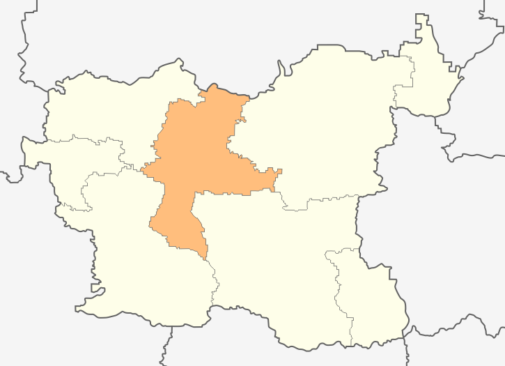 Map of Ugarchin municipality, Lovech Province